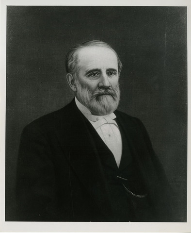 Artist: Harry Ives Thompson, American, 1840–1906